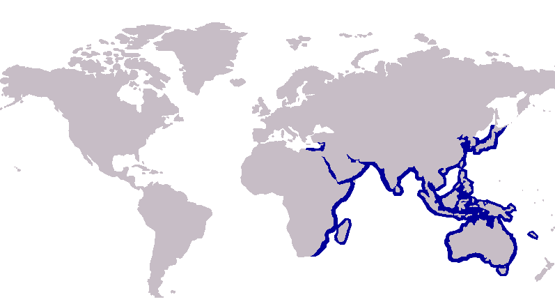 Approximate current distribution of the smelt-whiting family, Sillaginidae based on sources given in English wikipedia article. Map base from